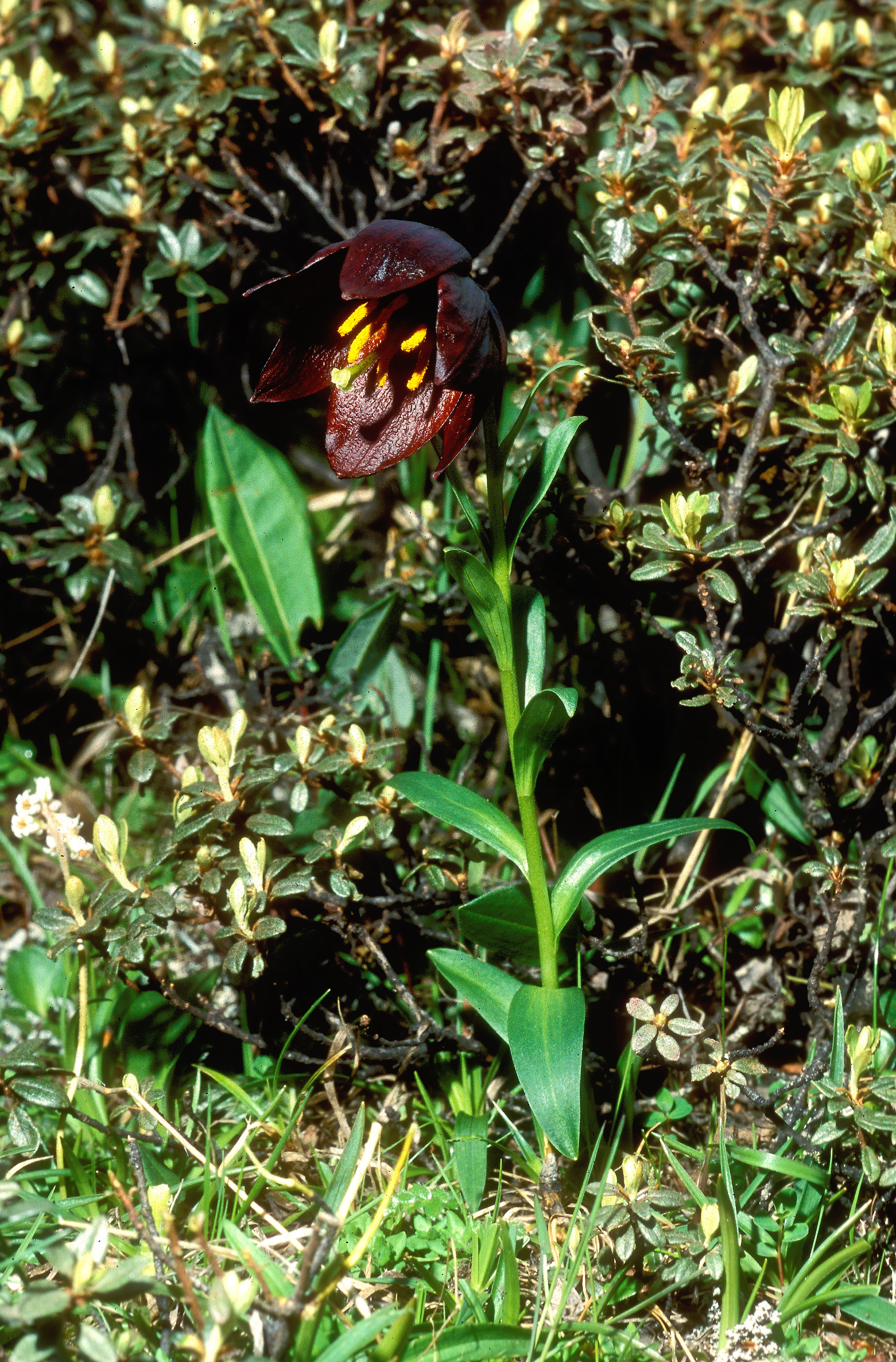 Lilium souliei in habitat, Lake Tianchi, Yunnan, China